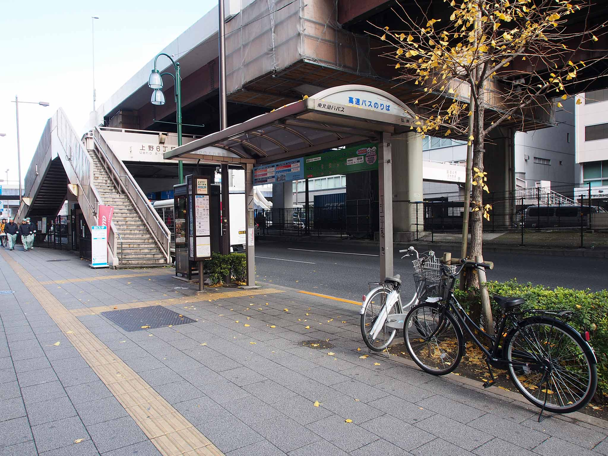 Ueno Station Bus stop for Tohoku Kyuko Bus (Tohoku Express) and Konan Bus.